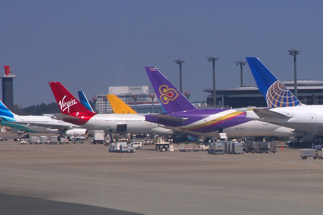 Multiple airlines' aircraft together at Tokyo Narita International Airport, Japan. United Airlines, Thai Airways International, Virgin Atlantic.